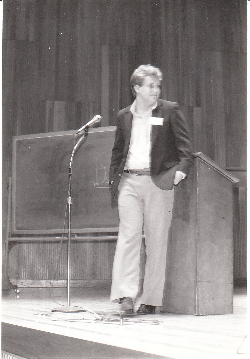 Mentalist Mike Edwards at the 1983 CSICOP Conference in Buffalo, NY